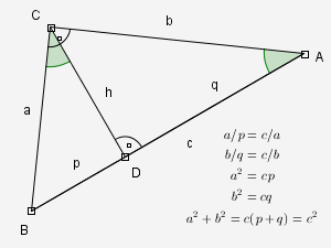 Pythagorean theorem. Made with the software Compass and Ruler (C.a.R.).